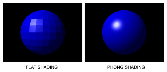 Phong shading sample. This image was created by the user for the wikipedia to illustrate how Phong shading works.